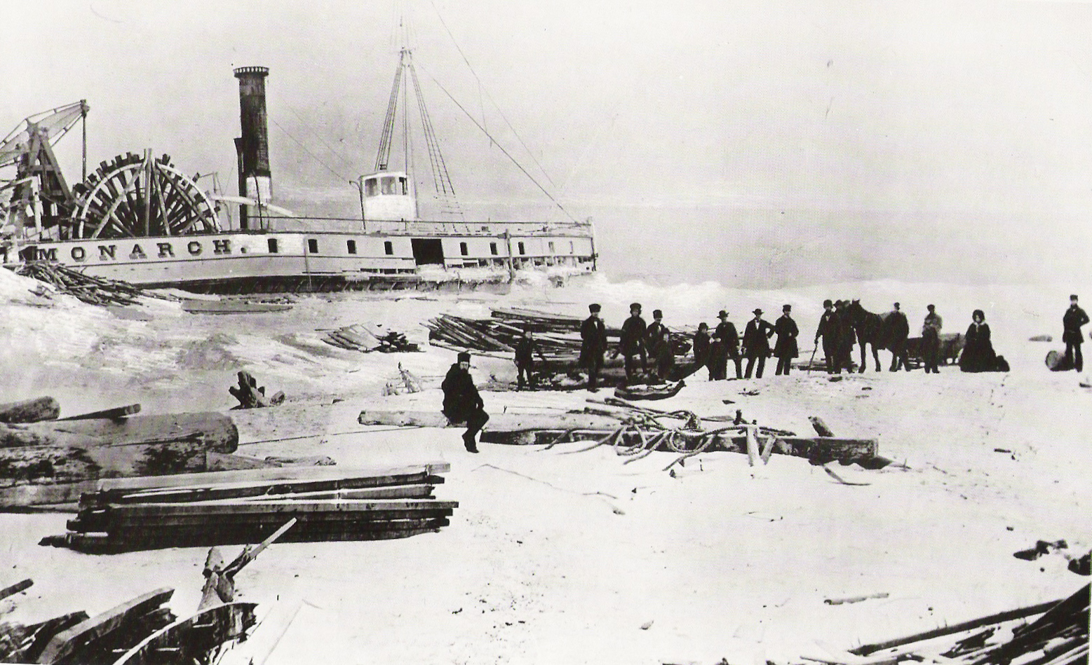 The "Monarch" stranded off Toronto Island, Toronto, Canada.